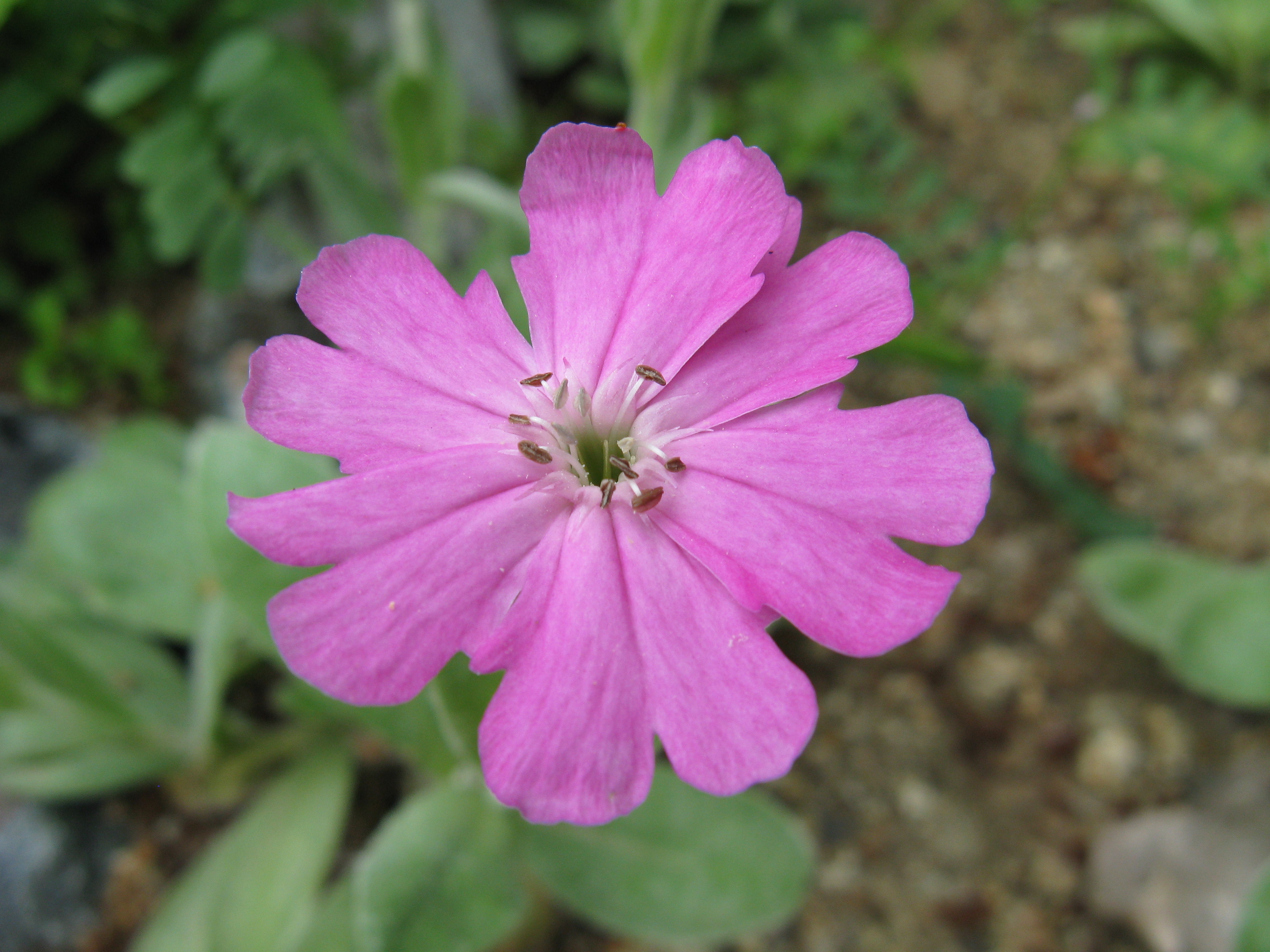 Scientific name Lychnis flos-jovis Place:Osaka,Japan